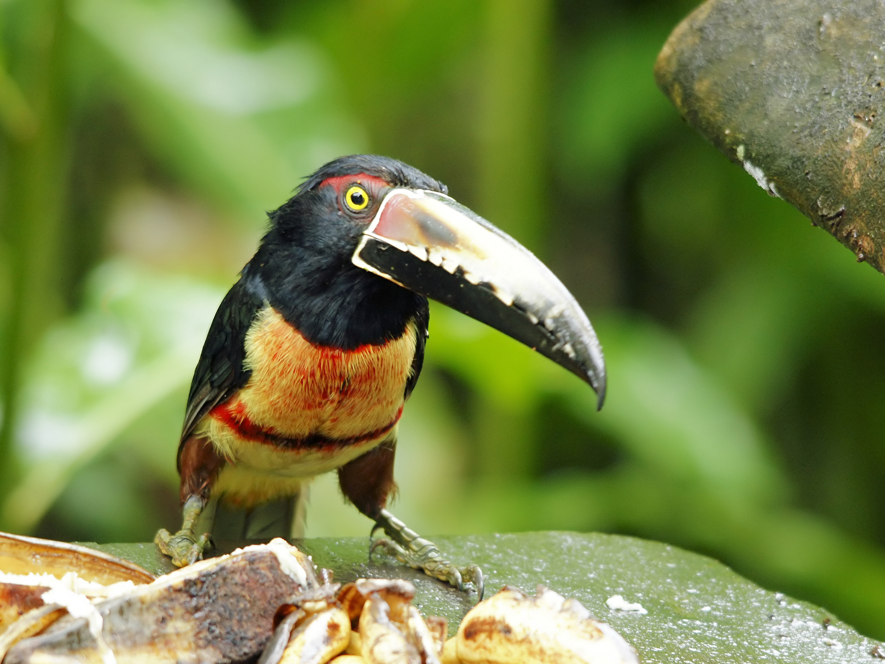 Collared Aracari near Las Horquetas, Costa Rica.